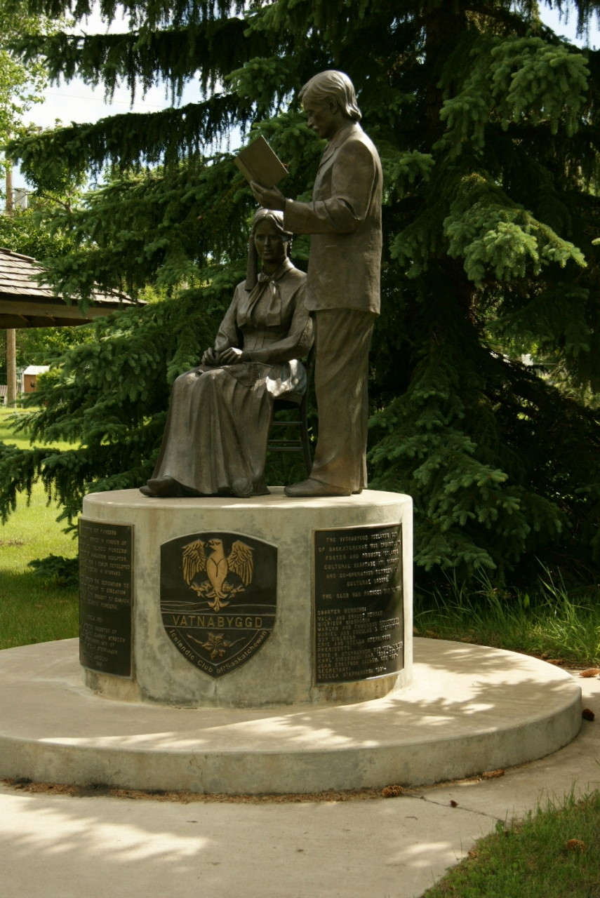 Elfros Icelandic settlers statue